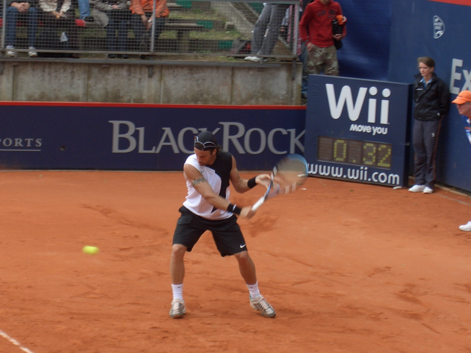 Carlos Moya playing James Blake at the Hamburg Masters 2007